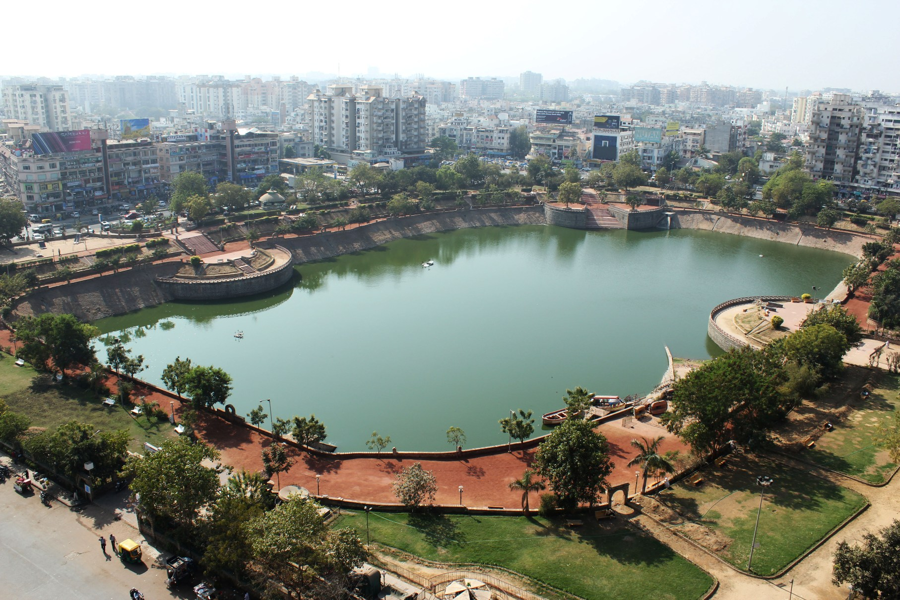 VASTRAPUR LAKE AHMEDABAD -BY GUFRAN KHAN